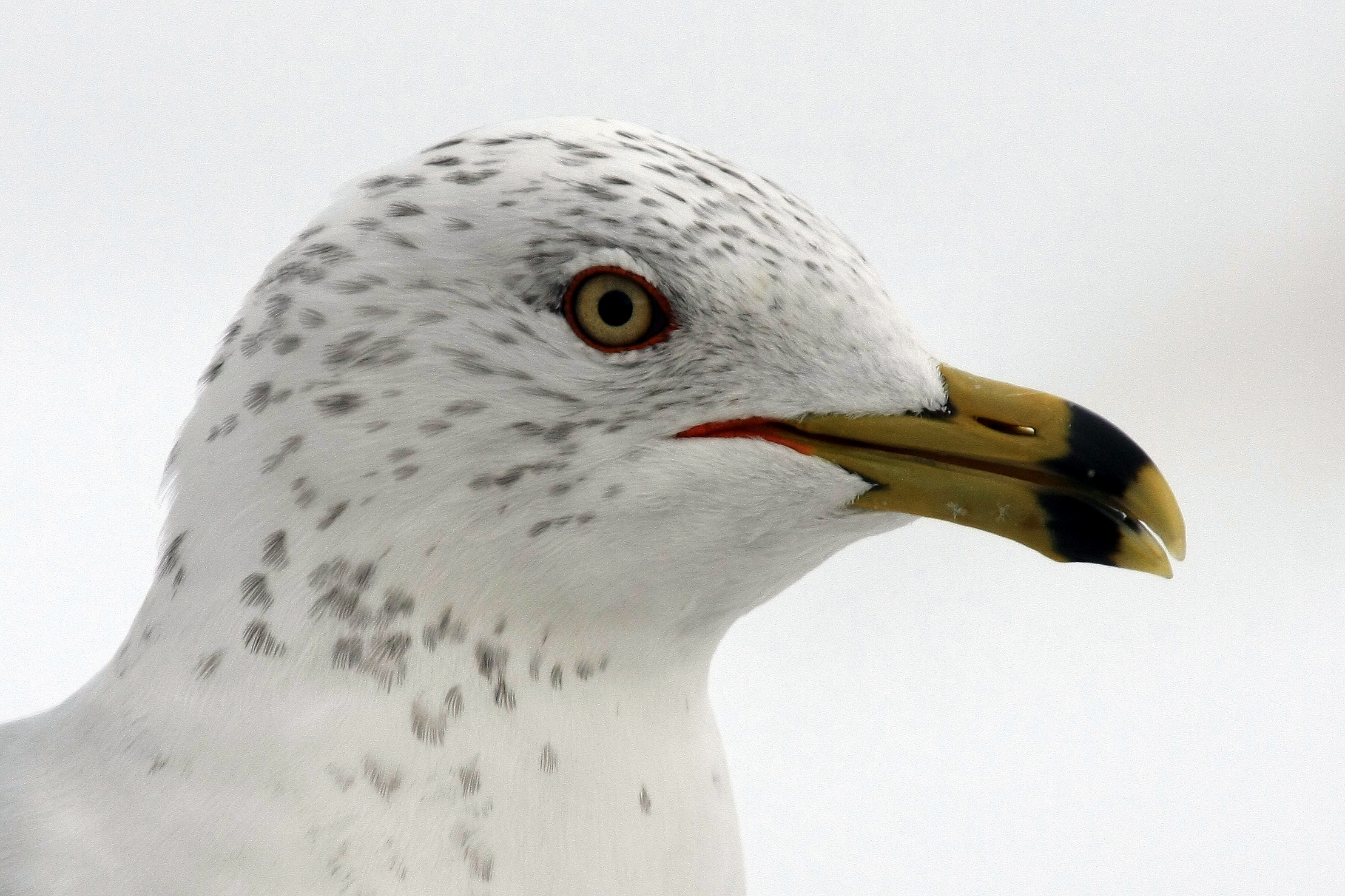 Adult Ring-billed Gull, Larus delawarensis, winter plumage.